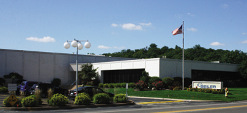 Seiler Instrument exterior, Eric Seiler